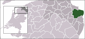 Locater map of the new municipality Oldambt